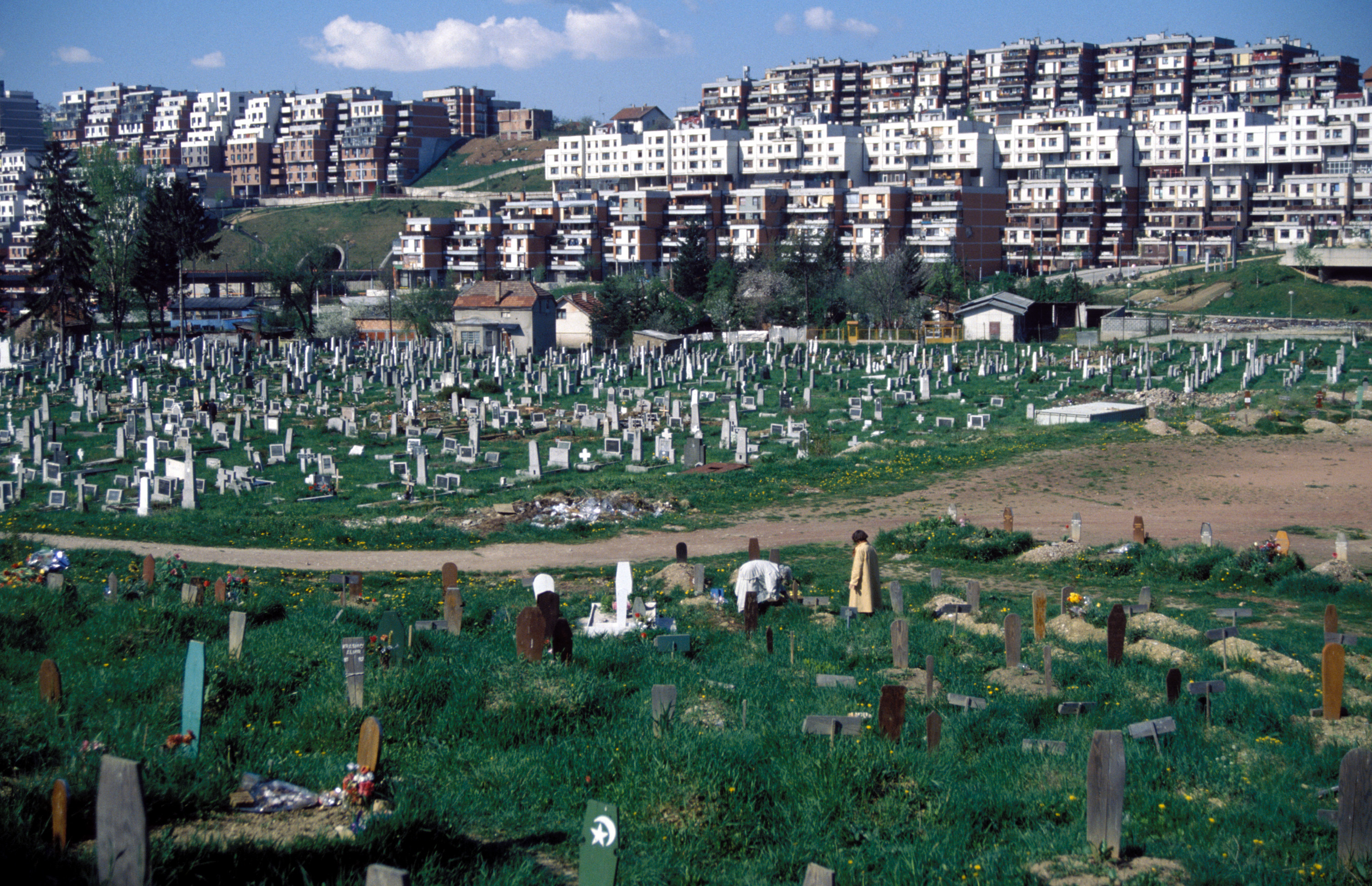 A graveyard has been established in what was once part of the Olympic Sports Complex in Sarajevo for the 1984 Winter Olympics.